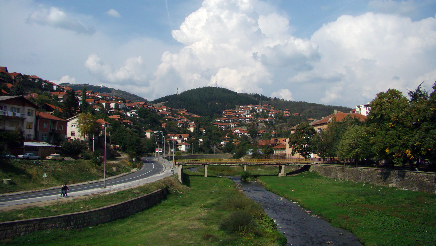 Kriva Palanka and Kriva Reka river